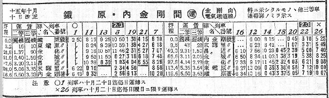 Kumgangsan Electric Railway timetable from 1940.